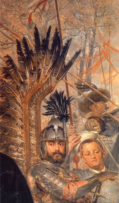 part of "Stefan Batory at Pskov" painted by Jan Matejko